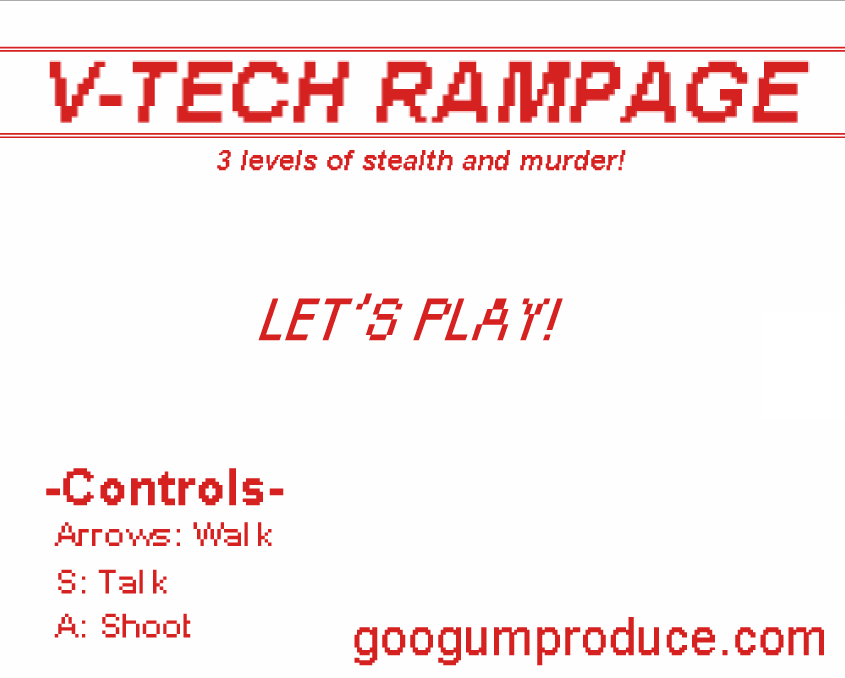 Title screen of V-Tech Rampage This image only consists of simple geometric shapes or text. It does not meet the threshold of originality needed for copyright protection, and is therefore in the public domain. Although it is free of copyright restrictions, this image may still be subject to other restrictions. See WP:PD#Fonts and typefaces or Template talk:PD-textlogo for more information.